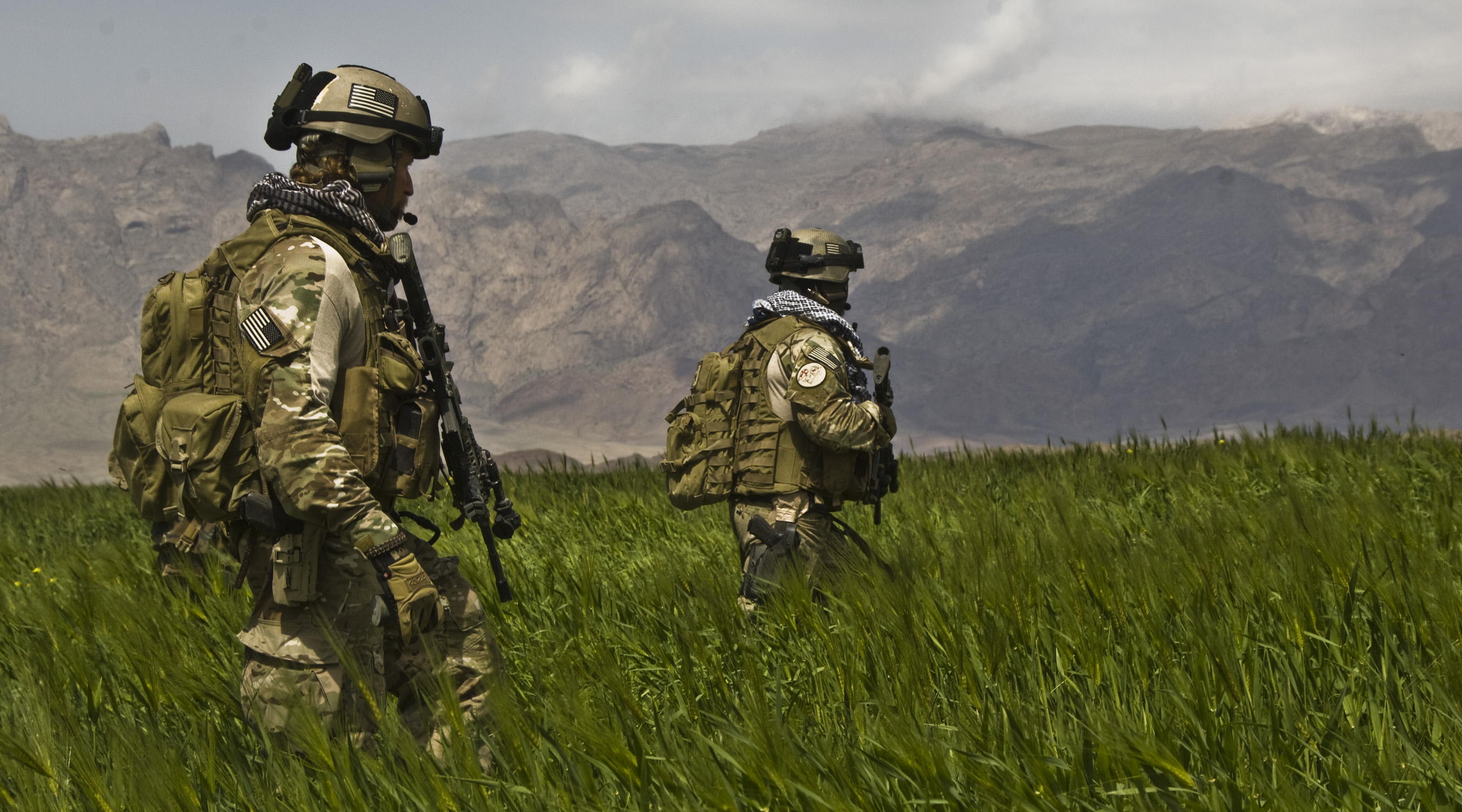 Special Forces Soldiers from the 3rd Special Forces Group patrol a field in the Gulistan district of Farah, Afghanistan with Afghan National Army commandos from the 207th Kandak, April 12.